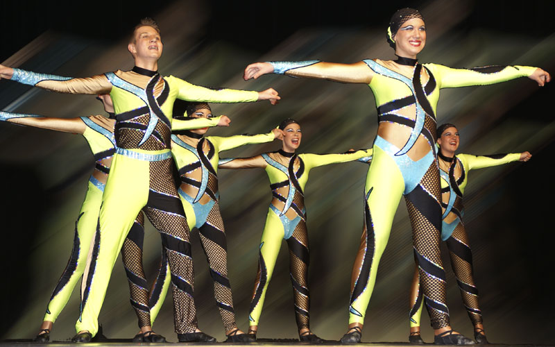 Formation Dancing Angels